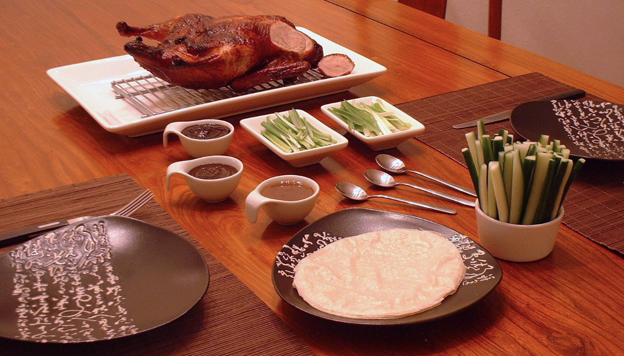 The Peking Duck as its ready to be sliced